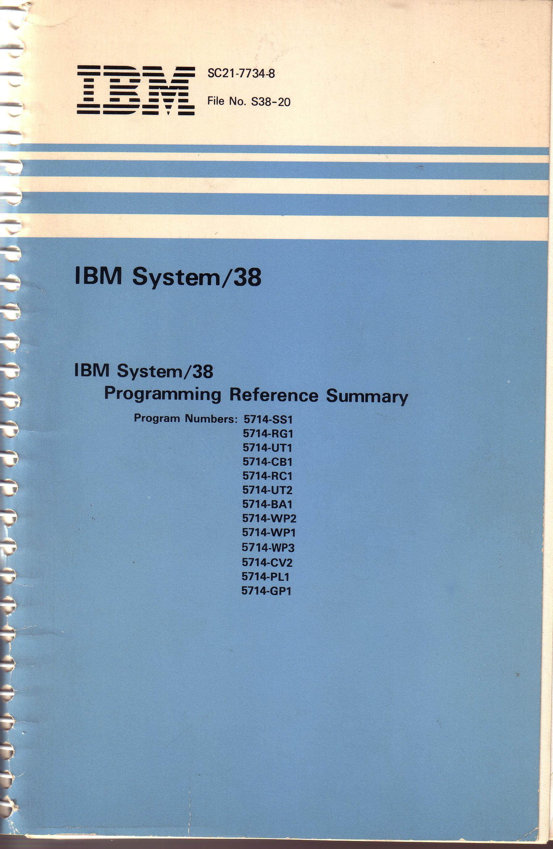 System/38 Programming Reference Summary